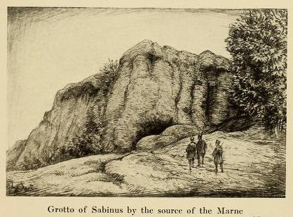 the cave of Sabinus near Langres, Marne